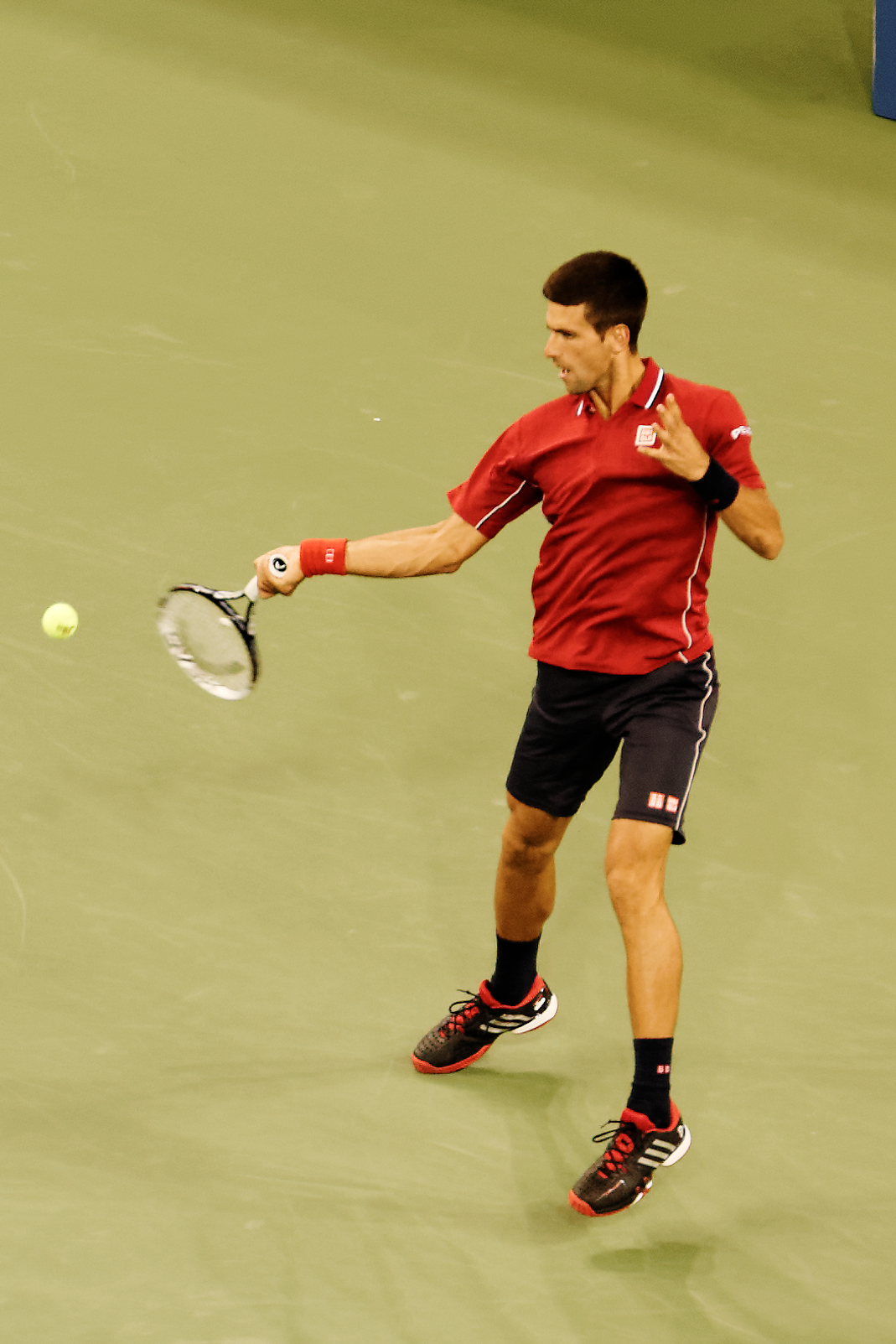 The 2014 US Open is a tennis tournament played on the outdoor hard courts. It is the 134th edition of the US Open, the fourth and final Grand Slam event of the year. It is currently taking place at the USTA Billie Jean King National Tennis Center. Roger Federer Ana Ivanovic Bill Diblasio David Dinkins Martina Navratilova